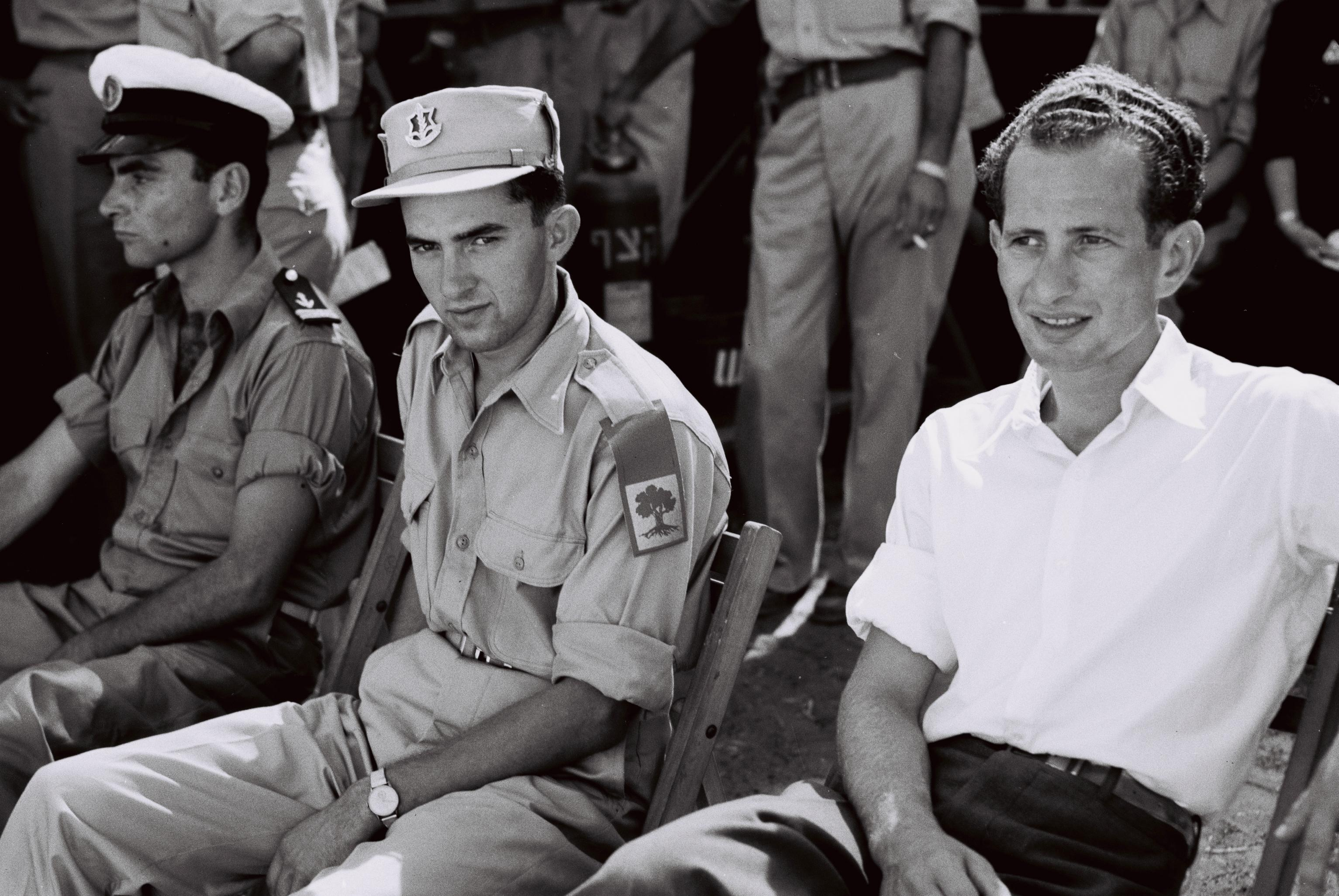 Yohai Ben-Nun, Arieh Atzmoni, Emil Brig.